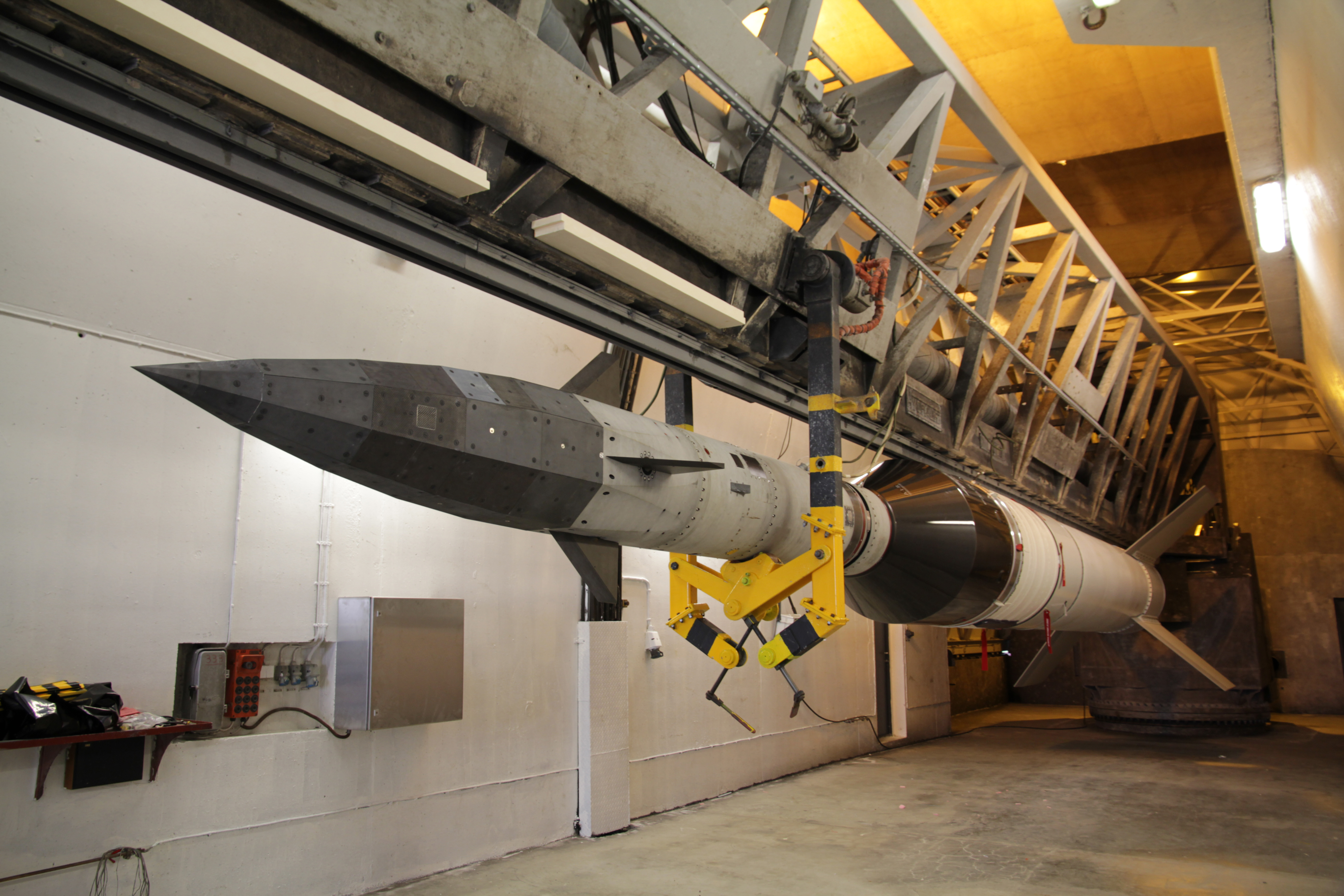 SHEFEX 2 DLR experiment atop of a VS-40M Brazilian rocket at Andoya Rocket Range, being prepared for launch.